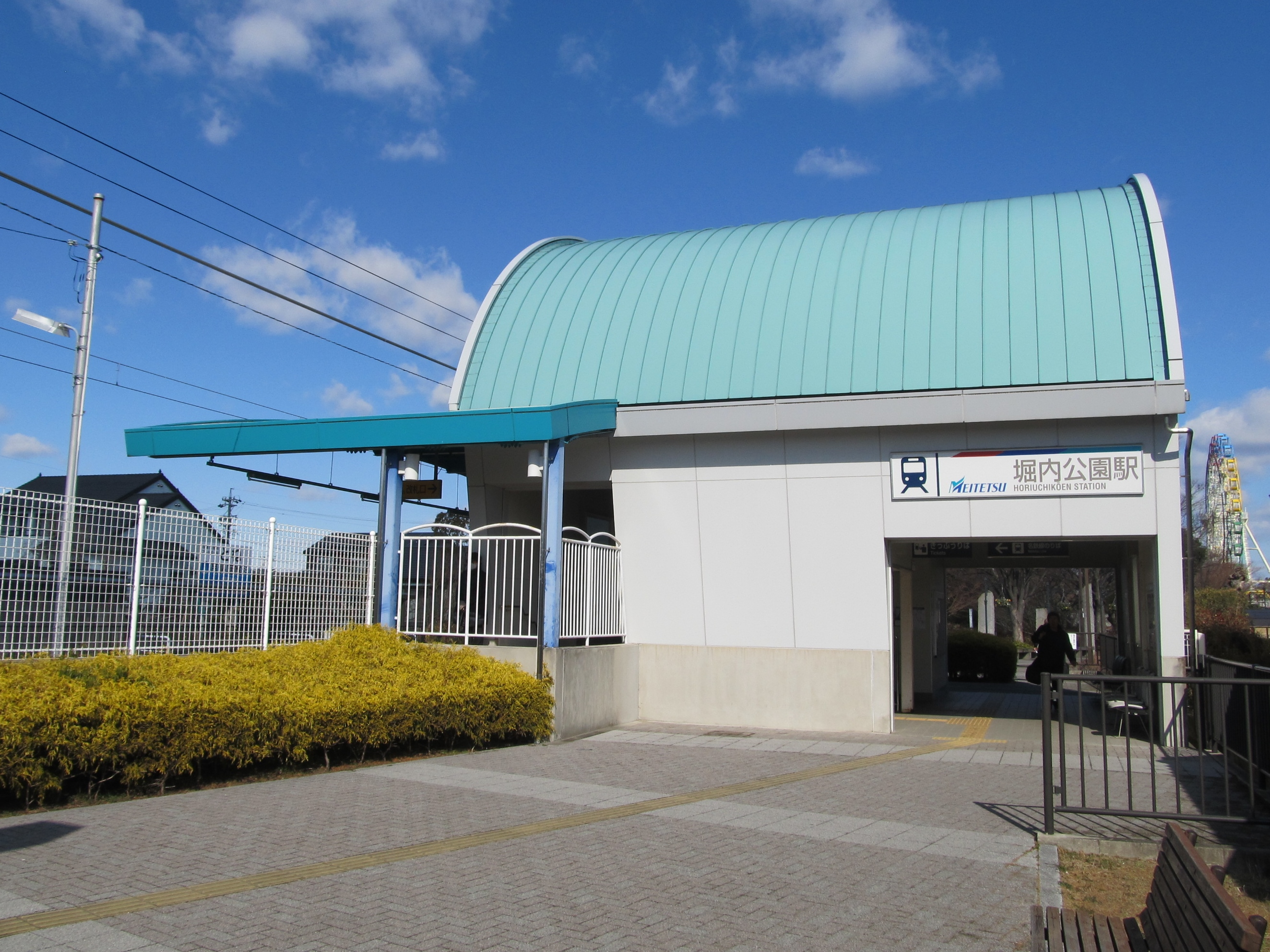 Nagoya Railroad Nishio Line Horiuchikōen Station Building